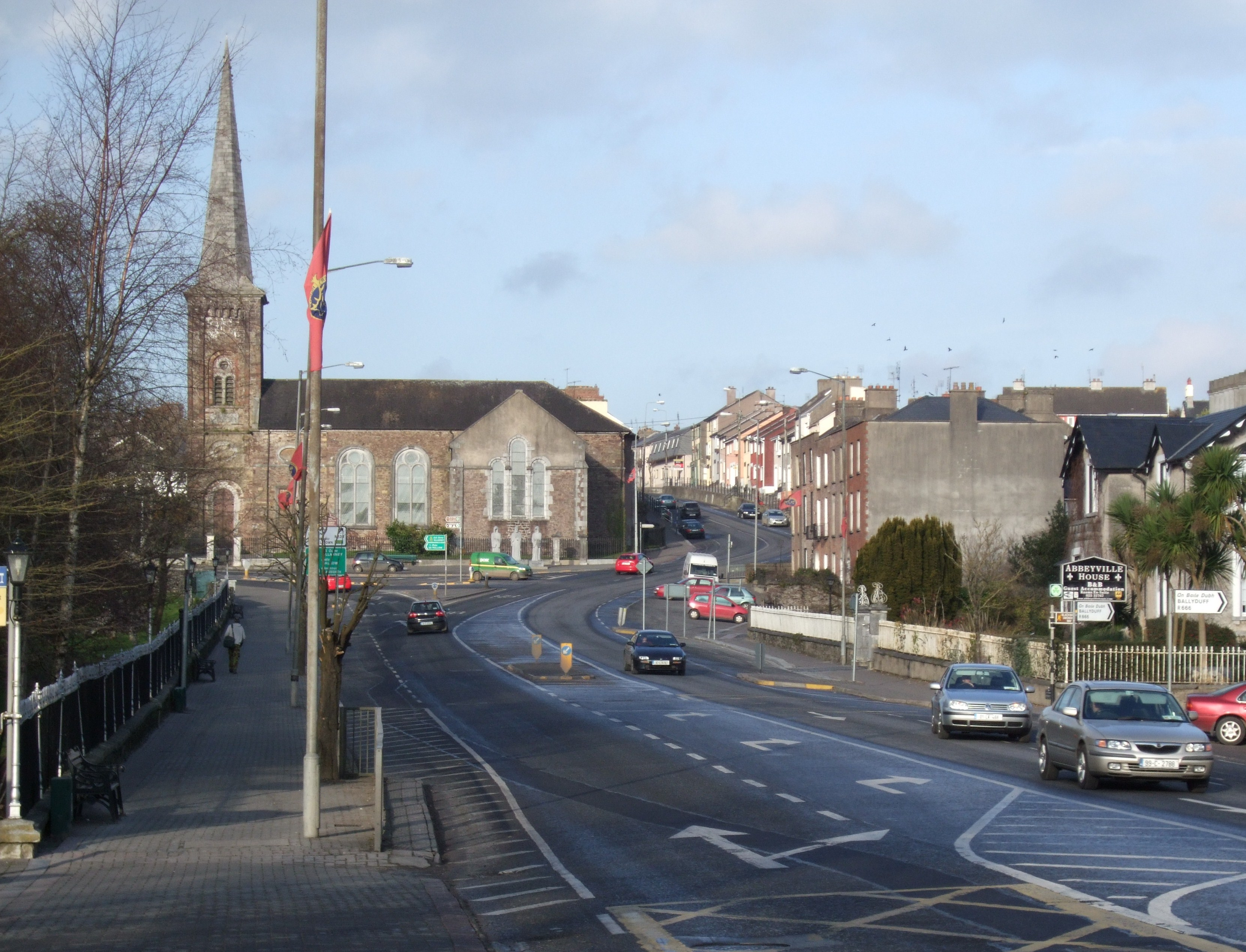 Fermoy street, R639 road.